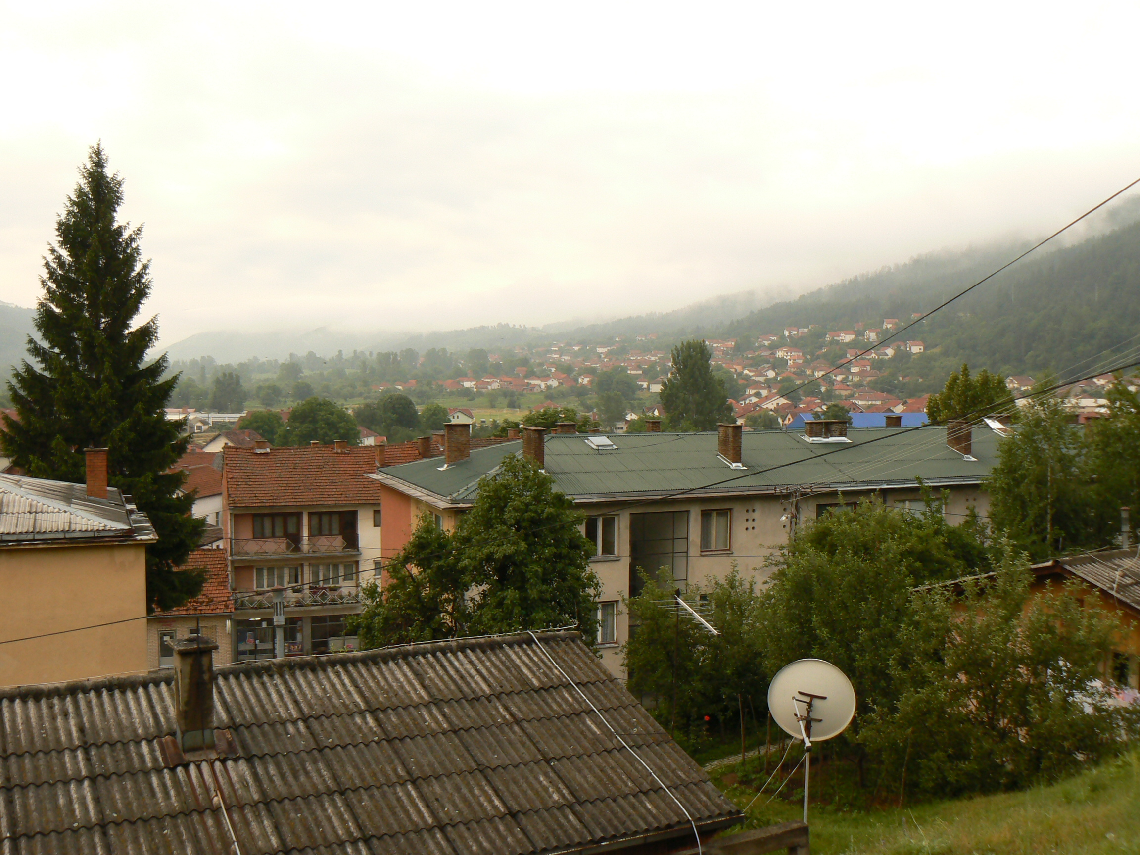 View to Bosilegrad